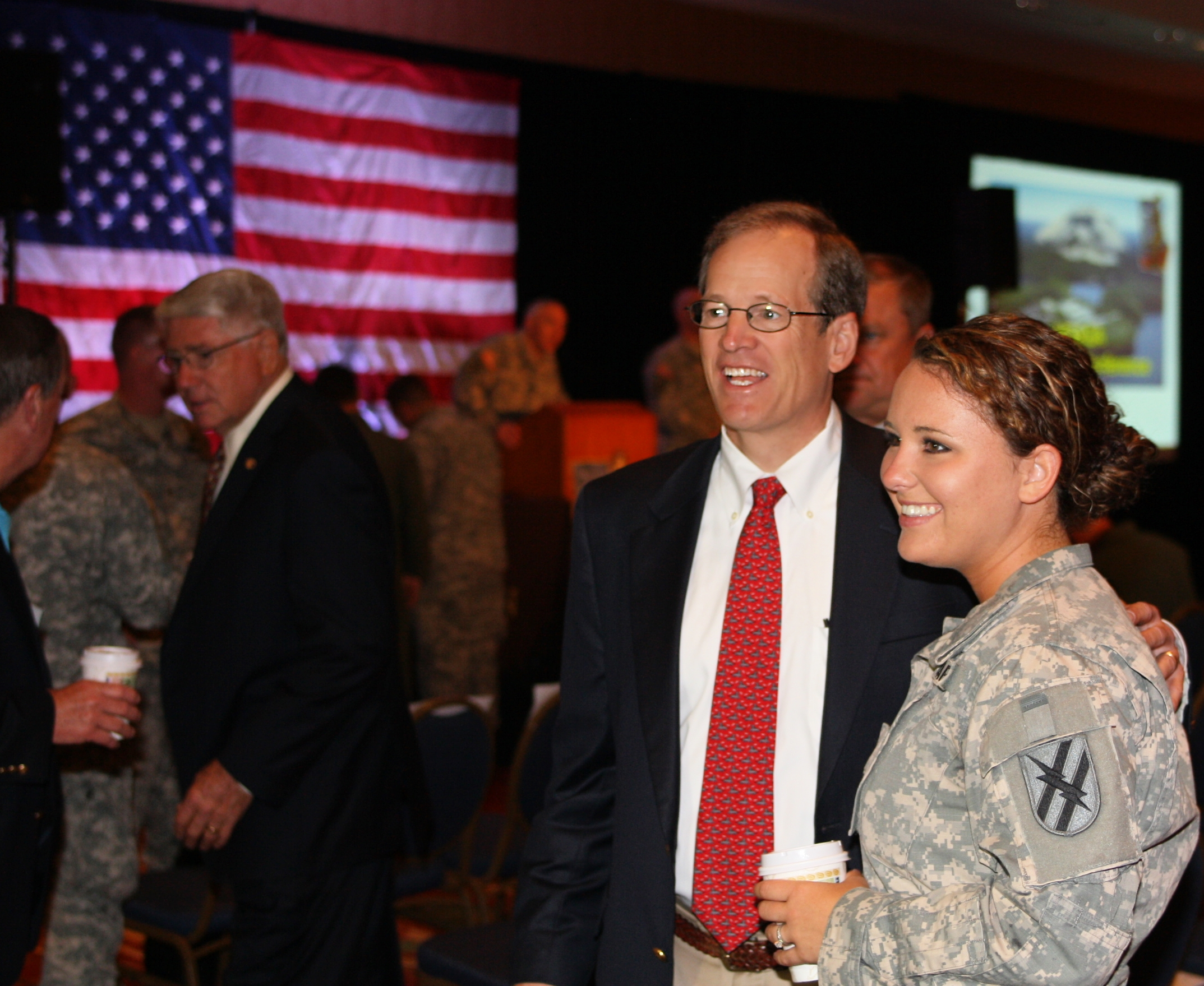 meets Spc. Hannah Stratton of the 48th Infantry Brigade Combat Team